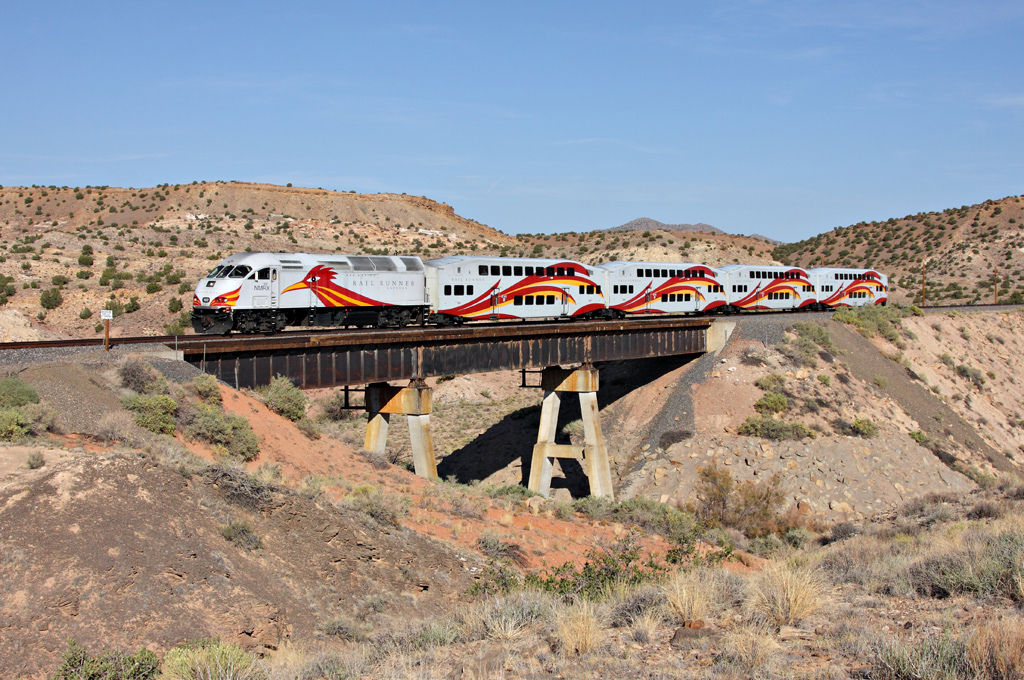 The New Mexico Rail Runner on La Bajada Hill, near Santa Fe, New Mexico